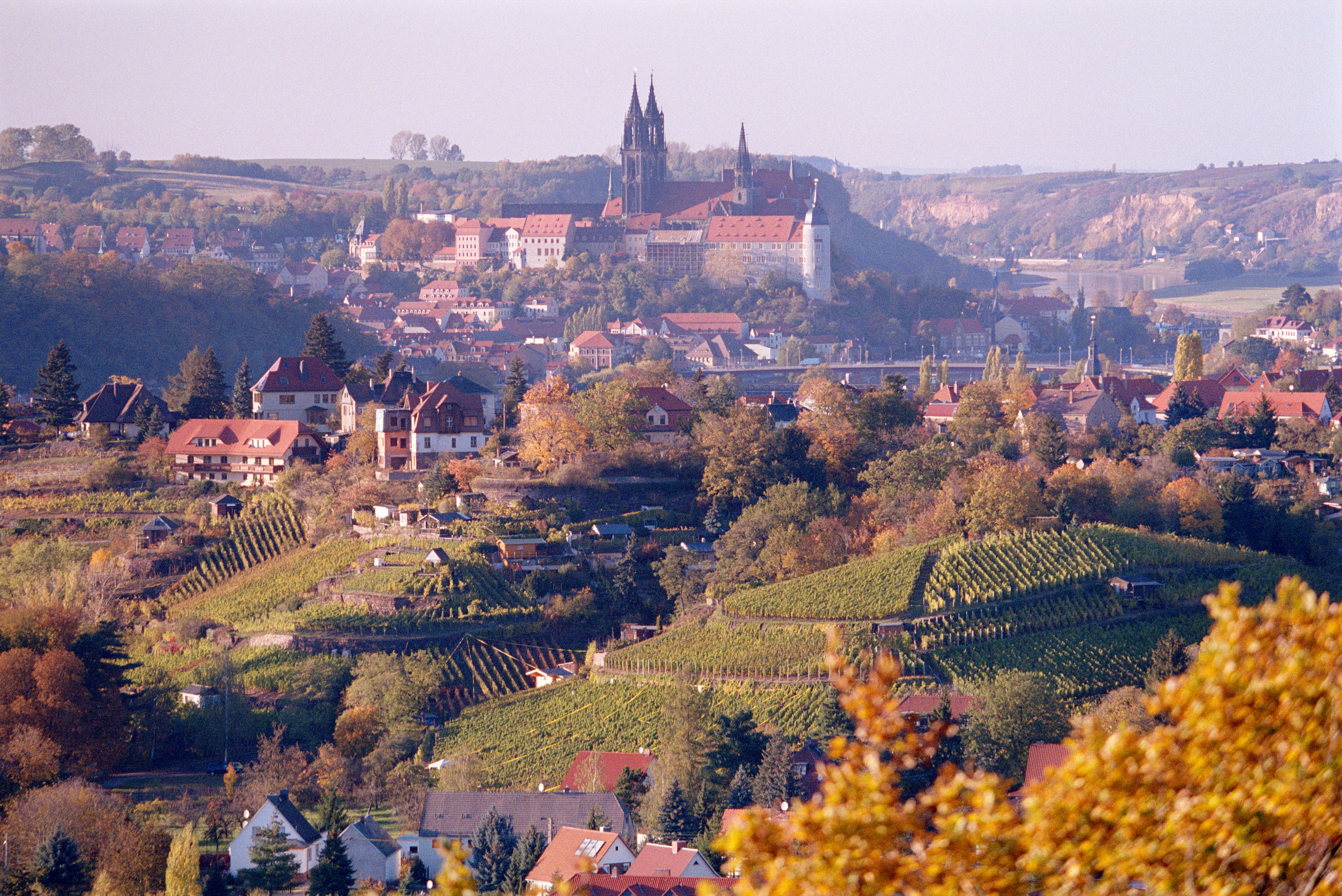 Meißen at the river Elbe, a city in germany near Dresden in Saxony picture taken from a viewpoint called "Juchhöh" in the nearby mountains "Spaargebirge" cathedral of Meißen and vineyards at the hills